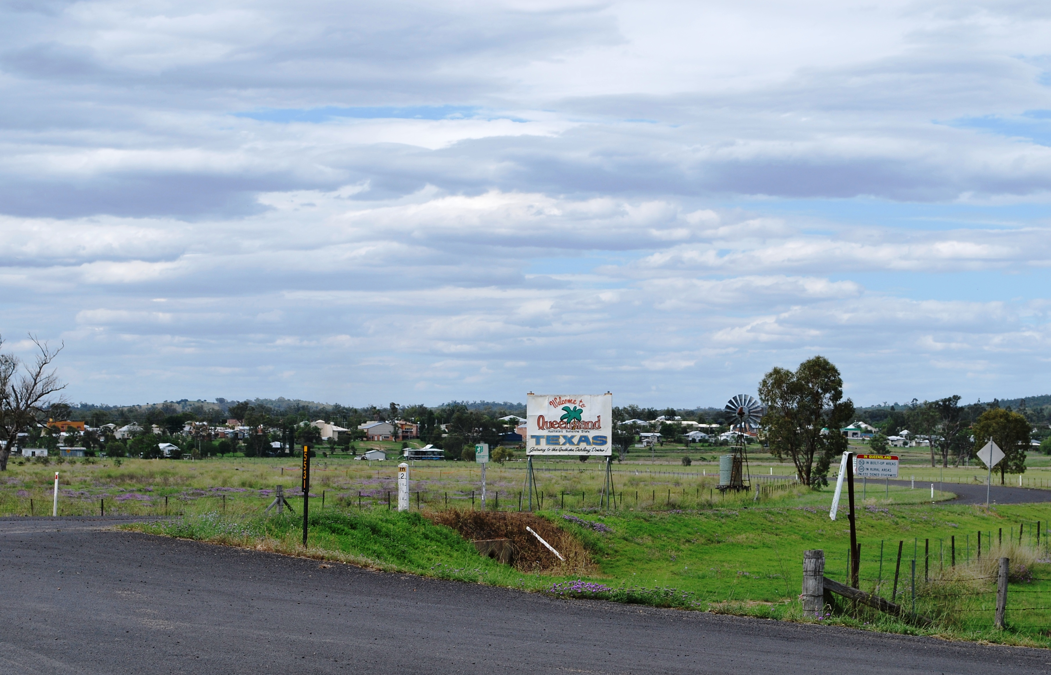 Welcome to Queensland sign at Texas, Queensland